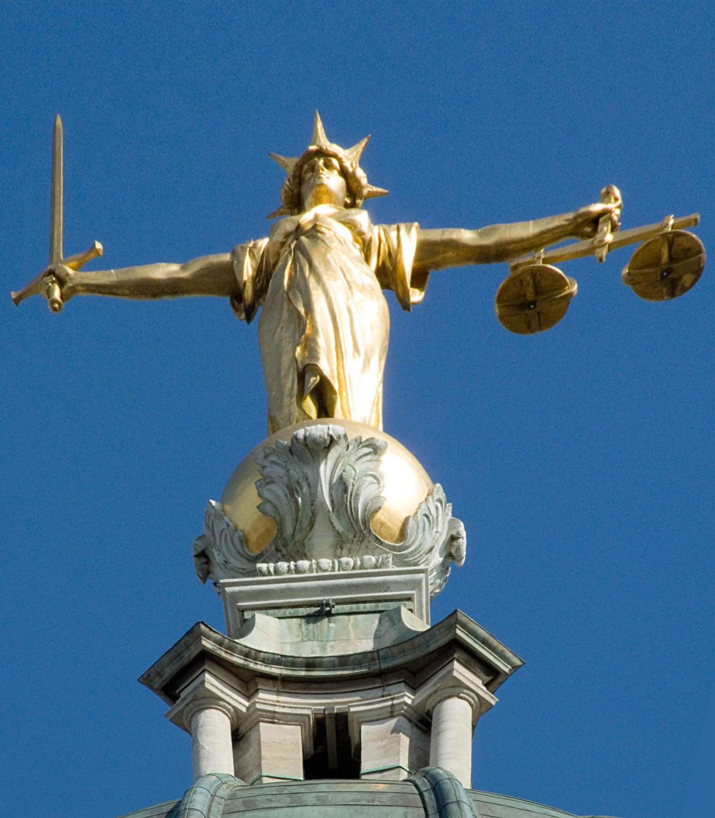 The statue of Justice on the roof of the Old Bailey